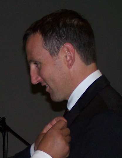 Nathan Twaddle, at his investiture as MNZM, for services to rowing, at Government House, Auckland, on 1 April 2009.